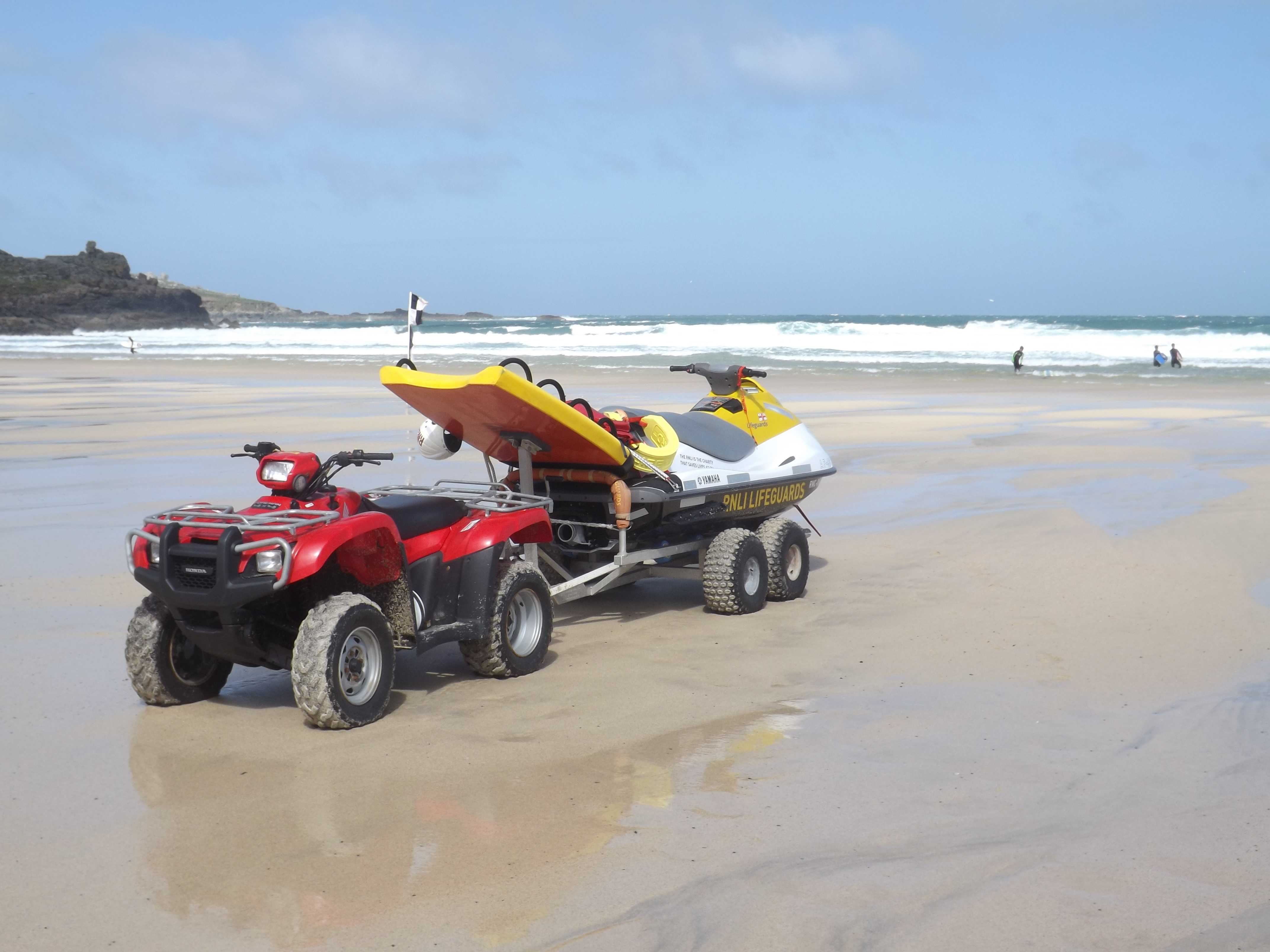 Photo date 6 May 2015